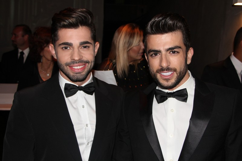 11 - Allyson Chinalia e Harry Louis